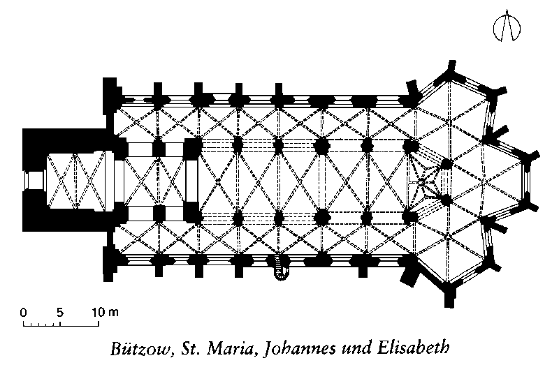 Bützow, Stiftskirche, Floor plan